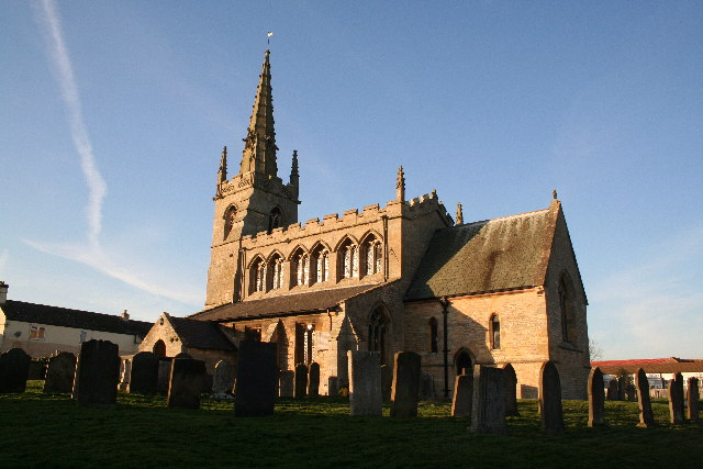 St.Thomas Martyr's church, Digby, Lincs. Anglo-Saxon origins, Norman doorway, Early English and decorated arcades and Perpendicular spire - St.Thomass church has it all !